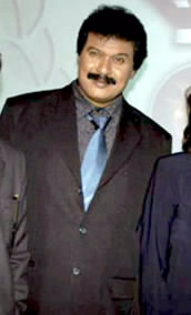 Dinesh Phadnis at the press conference of CID Gallantry Awards